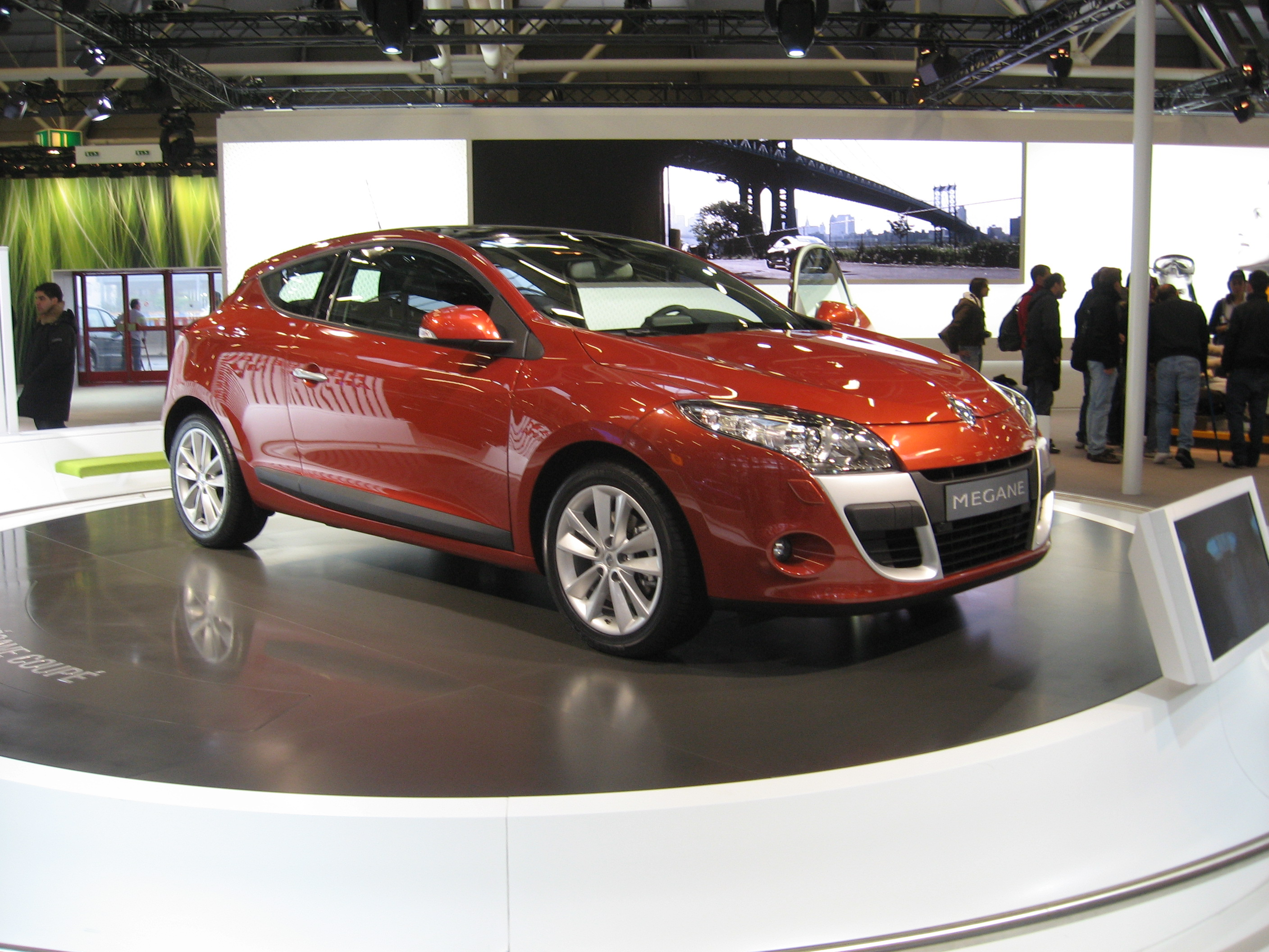 Subject: Renault Mégane Mk3 coupé Date:December 14th, 2008 Event: Bologna Motorshow 2008 Place/Country: Bologna, Italy I release all rights in the public domain.